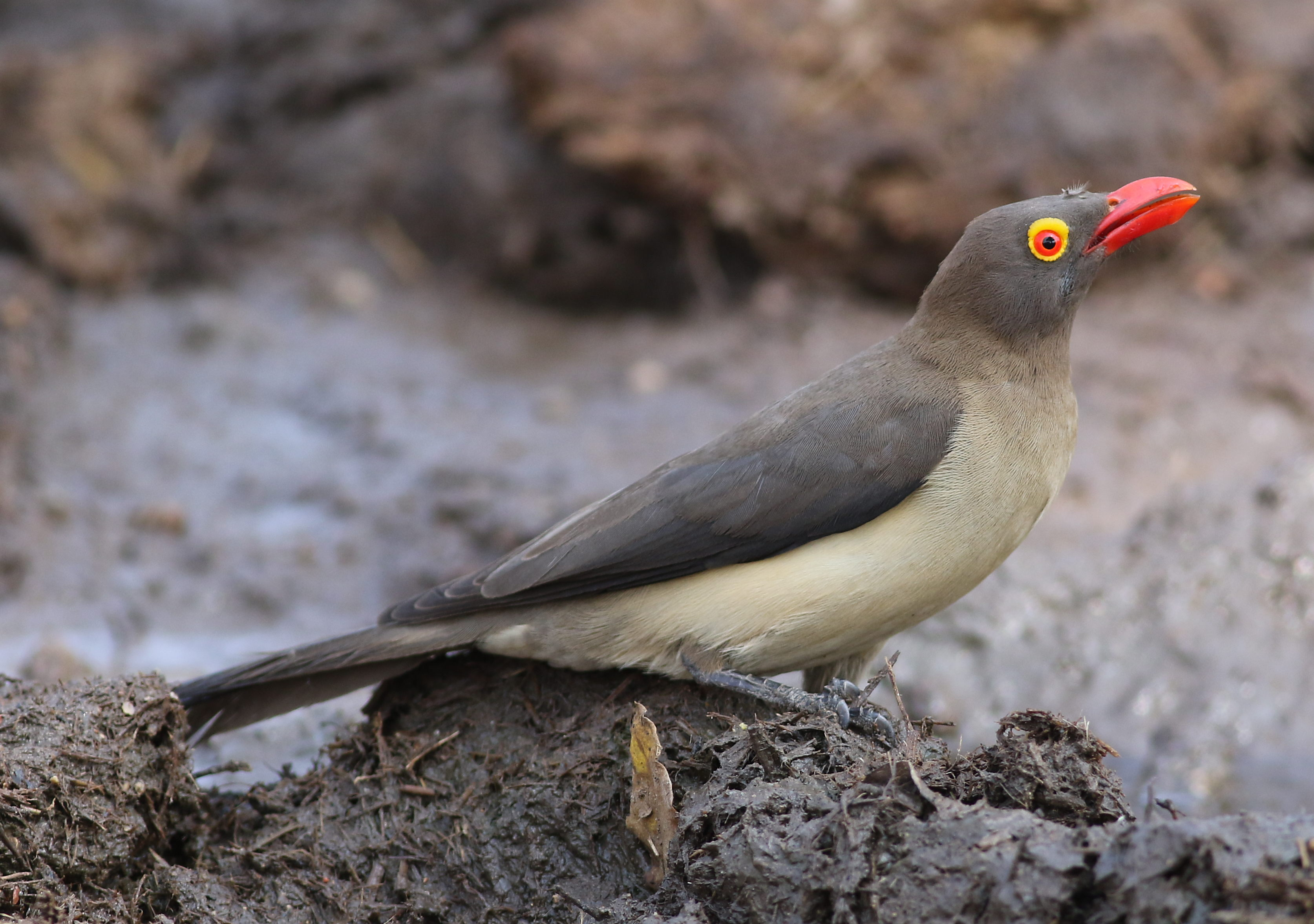 Red-billed Oxpecker, Buphagus erythrorhynchus, at Kruger National Park, South Africa